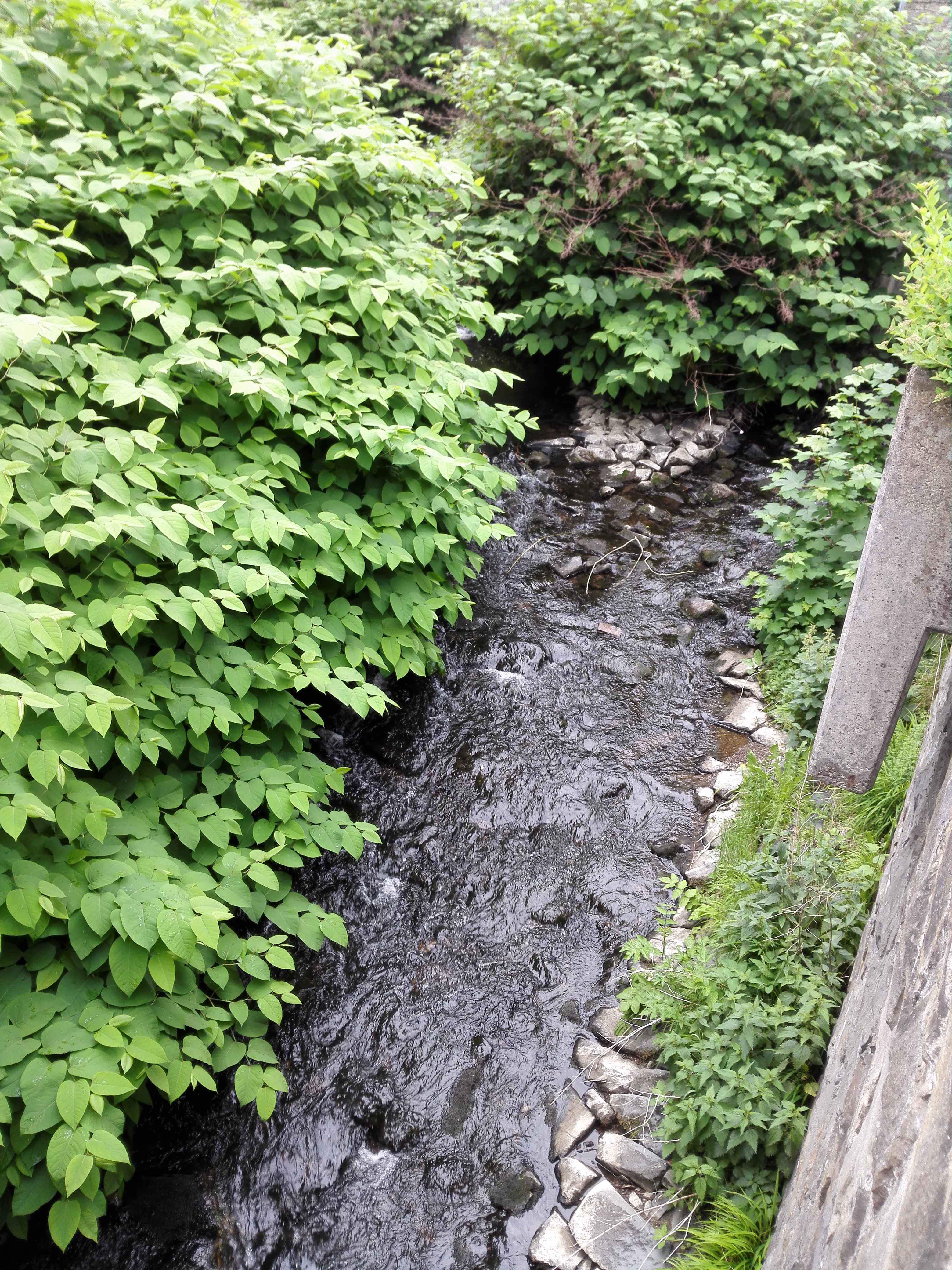 The stream Daade in Daaden (Rhineland-Palatinate, Germany)